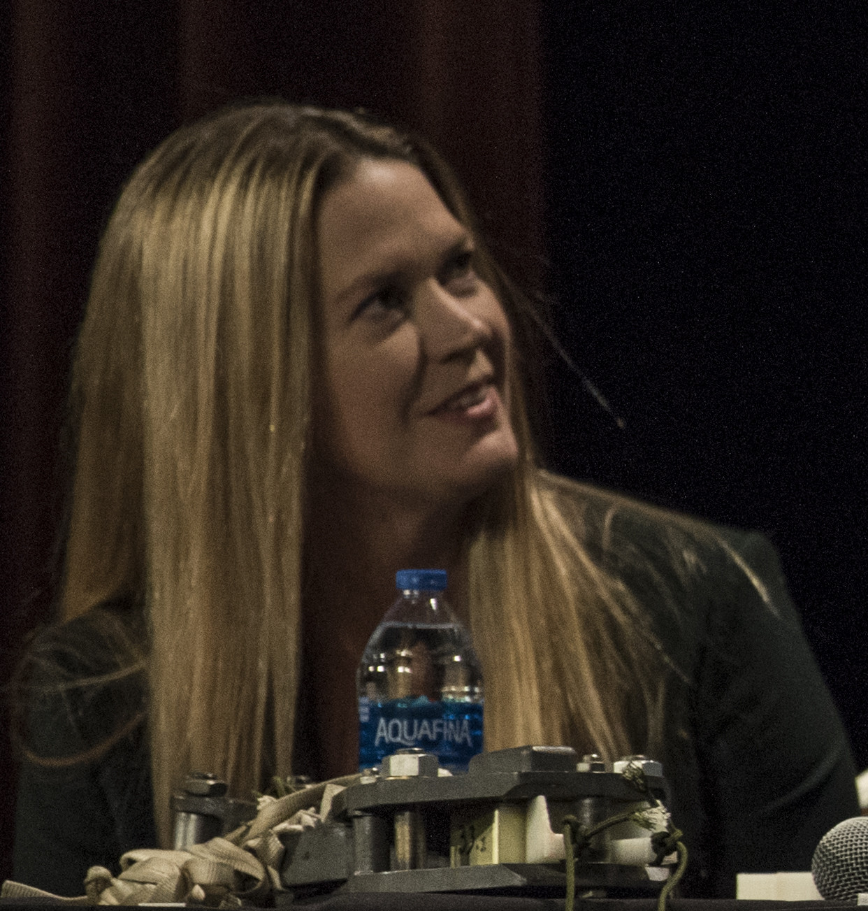 Mandy Vaughn, President of VOX space, listens to a presentation from one of AMC’s innovators during the 2018 AMC Phoenix Spark Tank competition, Grapevine, Texas, Oct. 27, 2018. The winner, Staff Sgt. Travis Alton from the 19th Logistics Readiness Squadron, won at the command level and will advance to the Air Force-level competition. A/TA, AMC's premier professional development event, provides mobility Airmen an opportunity to learn about and discuss mobility priorities, issues, challenges, and successes. The venue creates dialogue between industry experts and Air Force and Department of Defense about ways to innovate, enhance mission effects and advance readiness headed into the future. (U.S. Air Force photo by Tech. Sgt. Jodi Martinez)